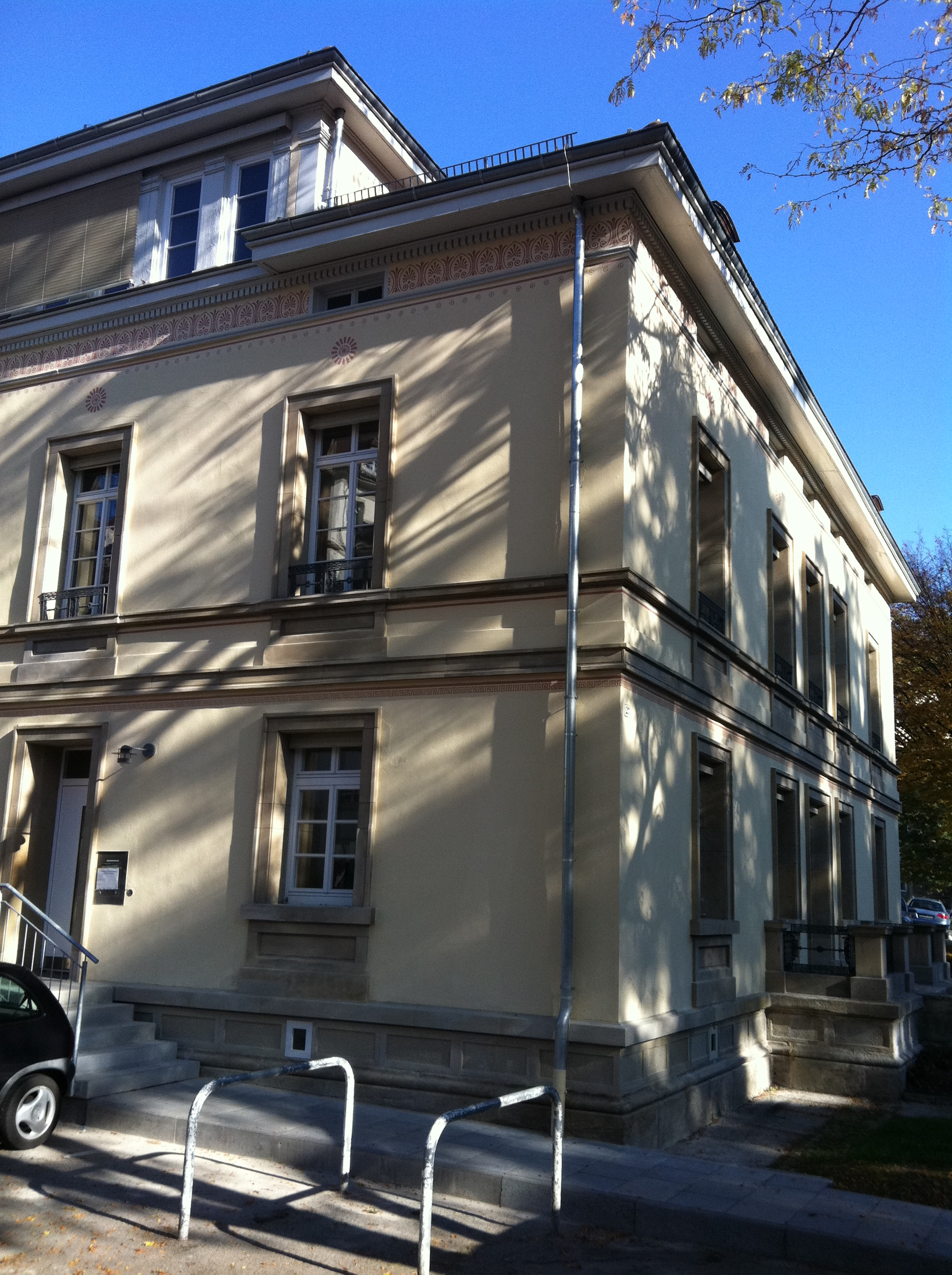 Villa Köstlin in Tübingen - Center for IslamicTheology in Rümelinstrasse 27